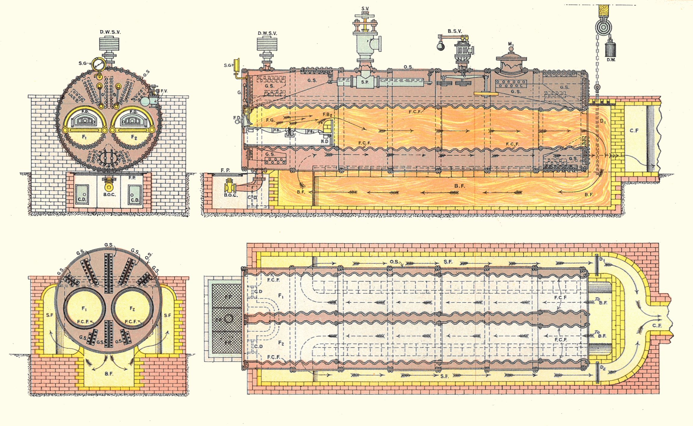 Lancashire boiler (Jamieson, Elementary Manual on Heat Engines).jpg